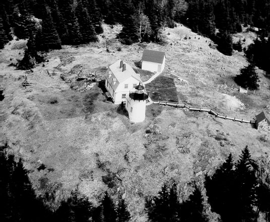 Aerial photograph of the Bear Island Light station ca. 1972 (USCG)